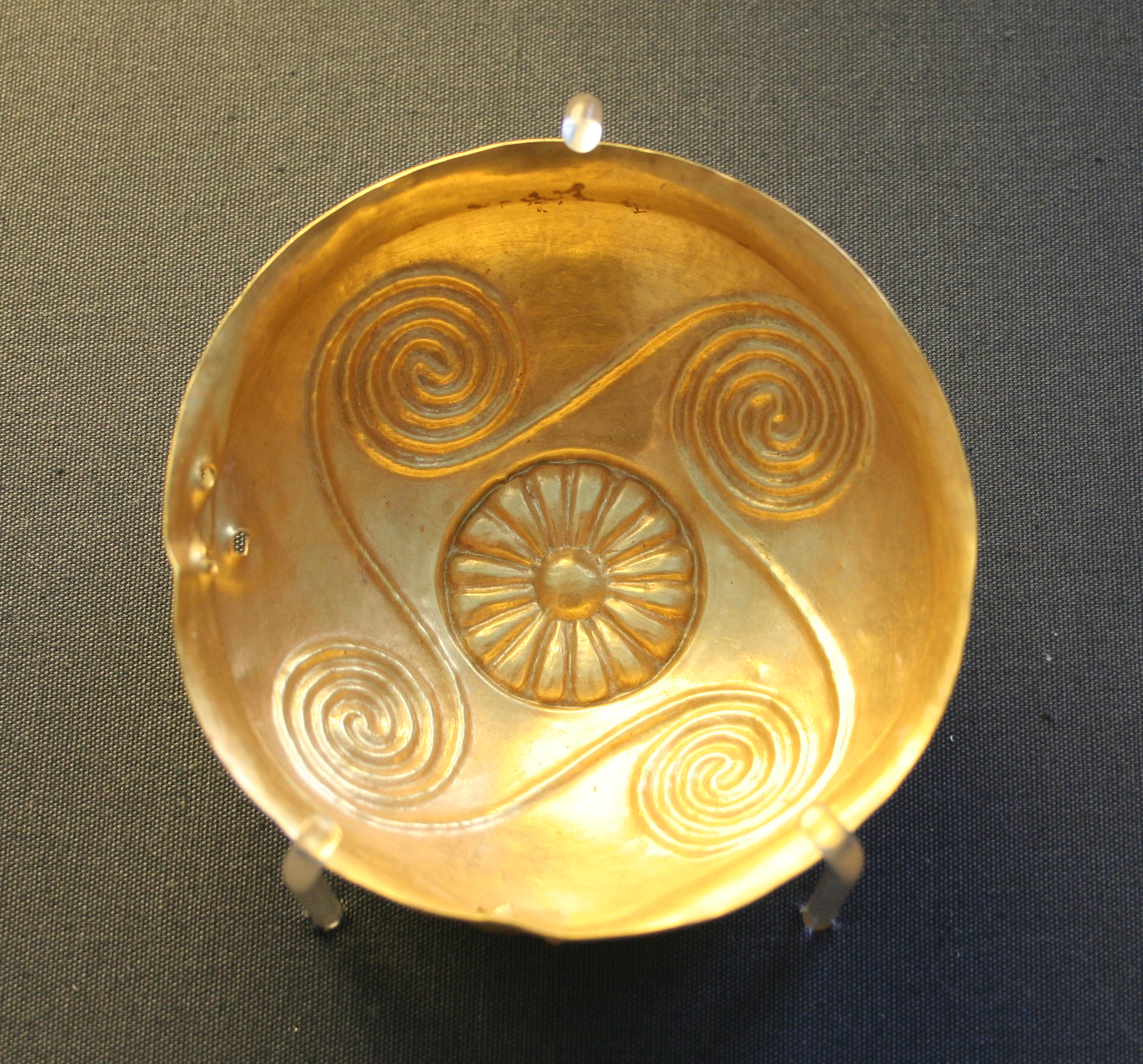 Part of the Aegina treasure. This golden cup has a diameter of 9.7 cm. It is ornamented within by a rosette with 16 petals and four connected spirals. A handle was once fixed by rivets but is missing. British Museum Catalogue Jewellery #768. Description after Higgins: The Aegina Treasure, 1979